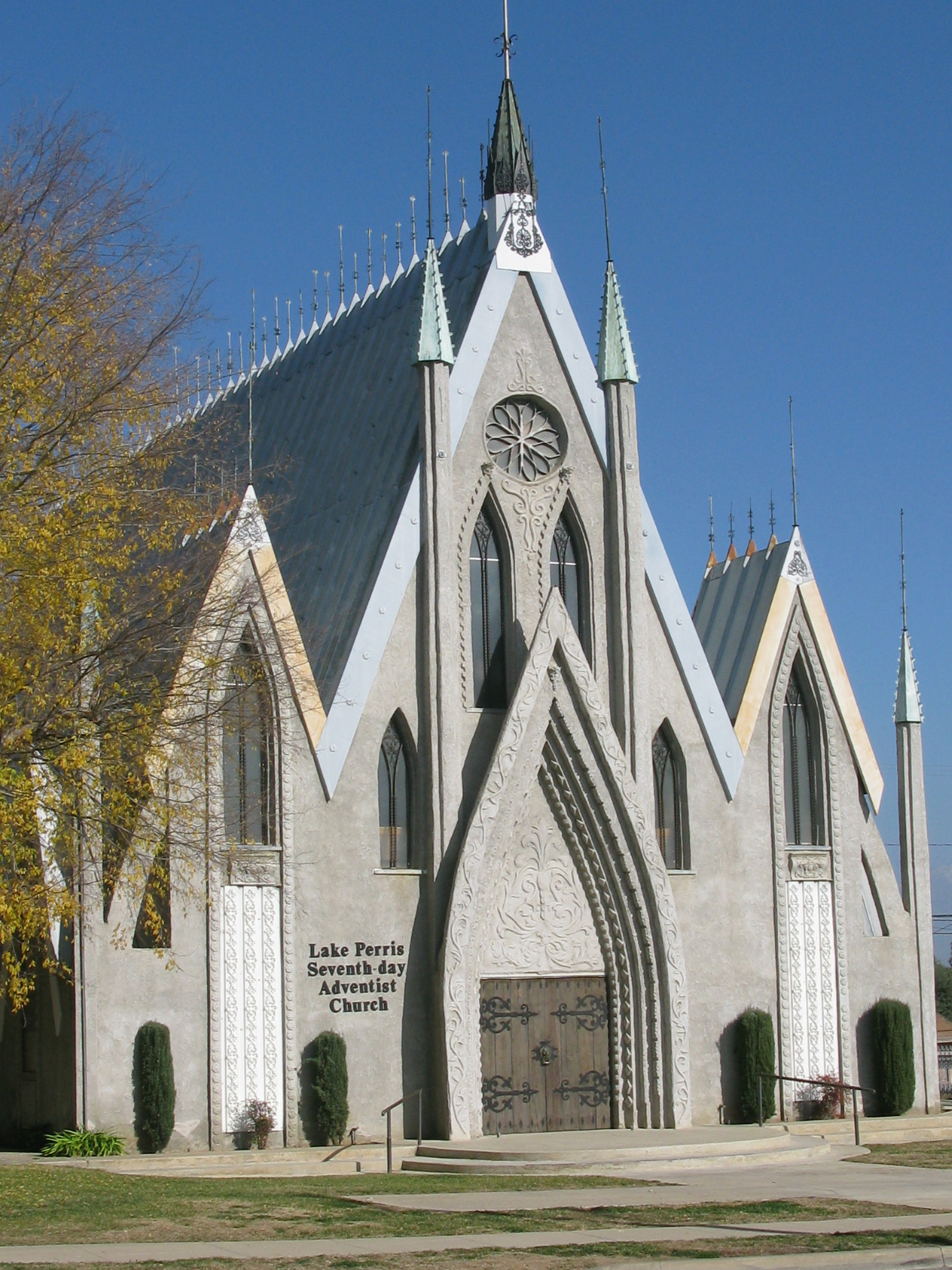 The Lake Perris Seventh-day Adventist Church is part of a world-wide Christian Family with more than 17 million members in countries around the world.